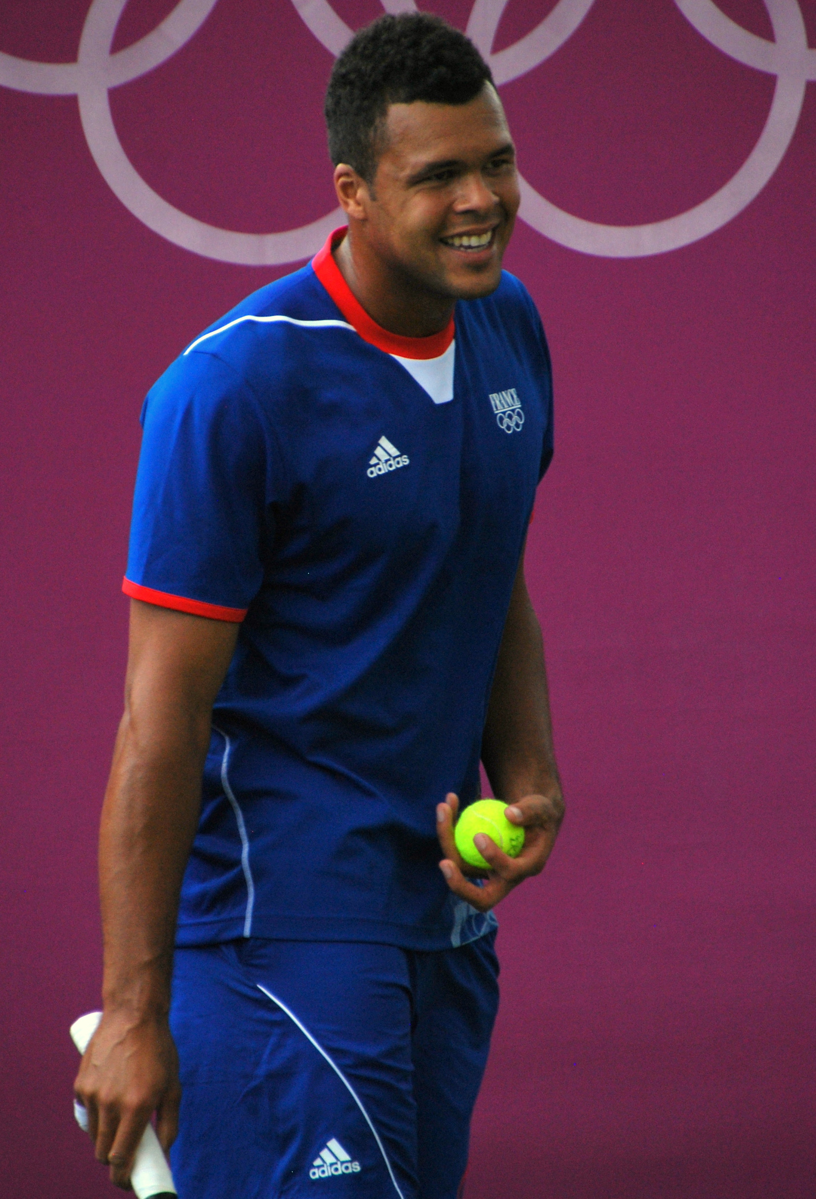 Jo-Wilfried Tsonga on the practice court.